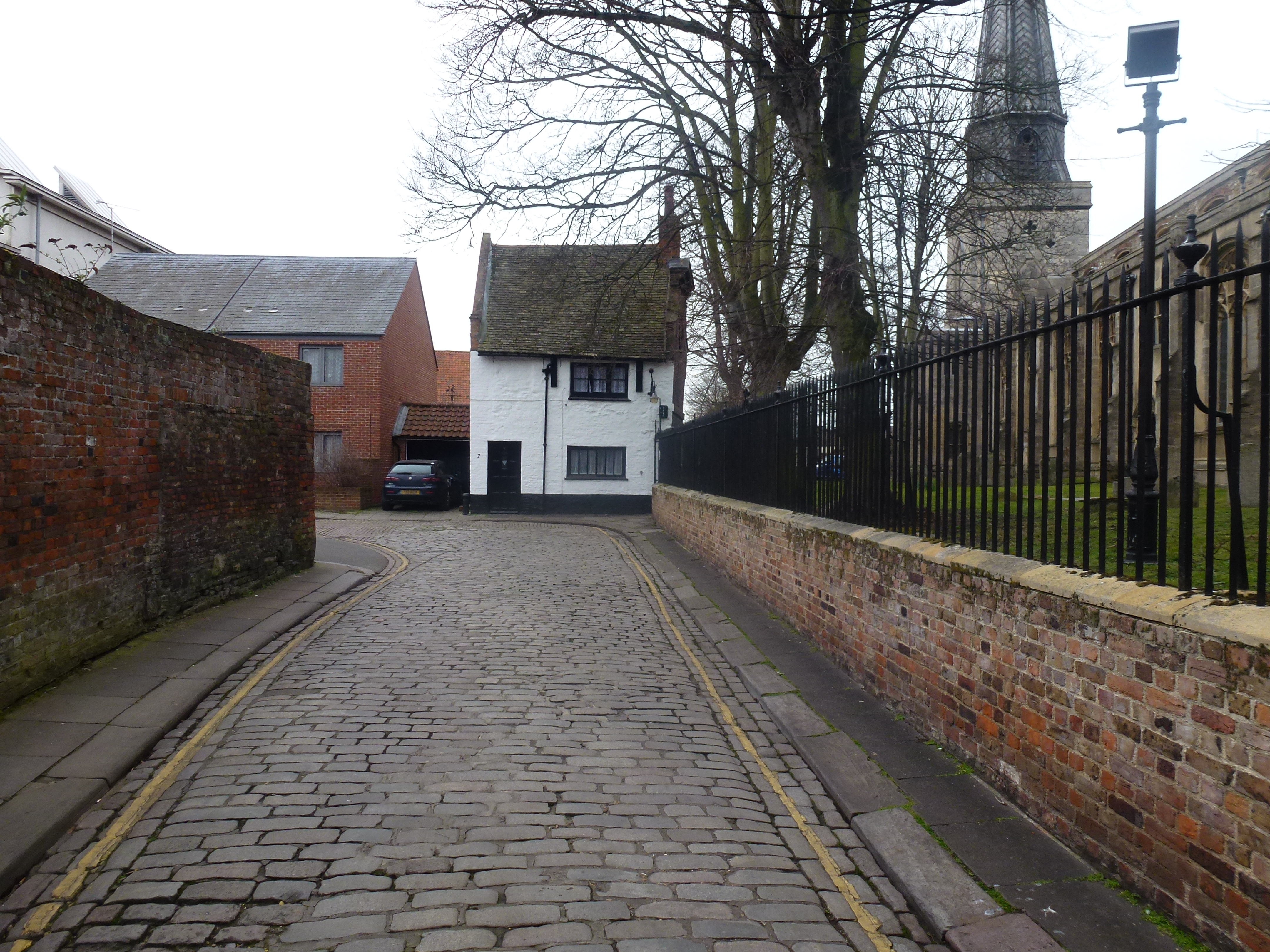 Exorcist's house adjoining St Nicholas chapel, Kings Lynn